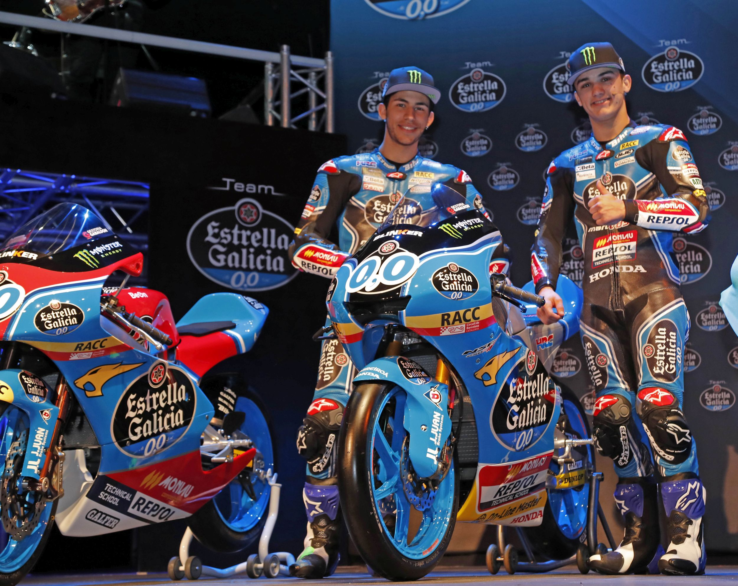 Arón Canet (on right) and Enea Bastianini (on the left) at the presentation of 2017 Estrella Galicia 0,0 Moto 3 team